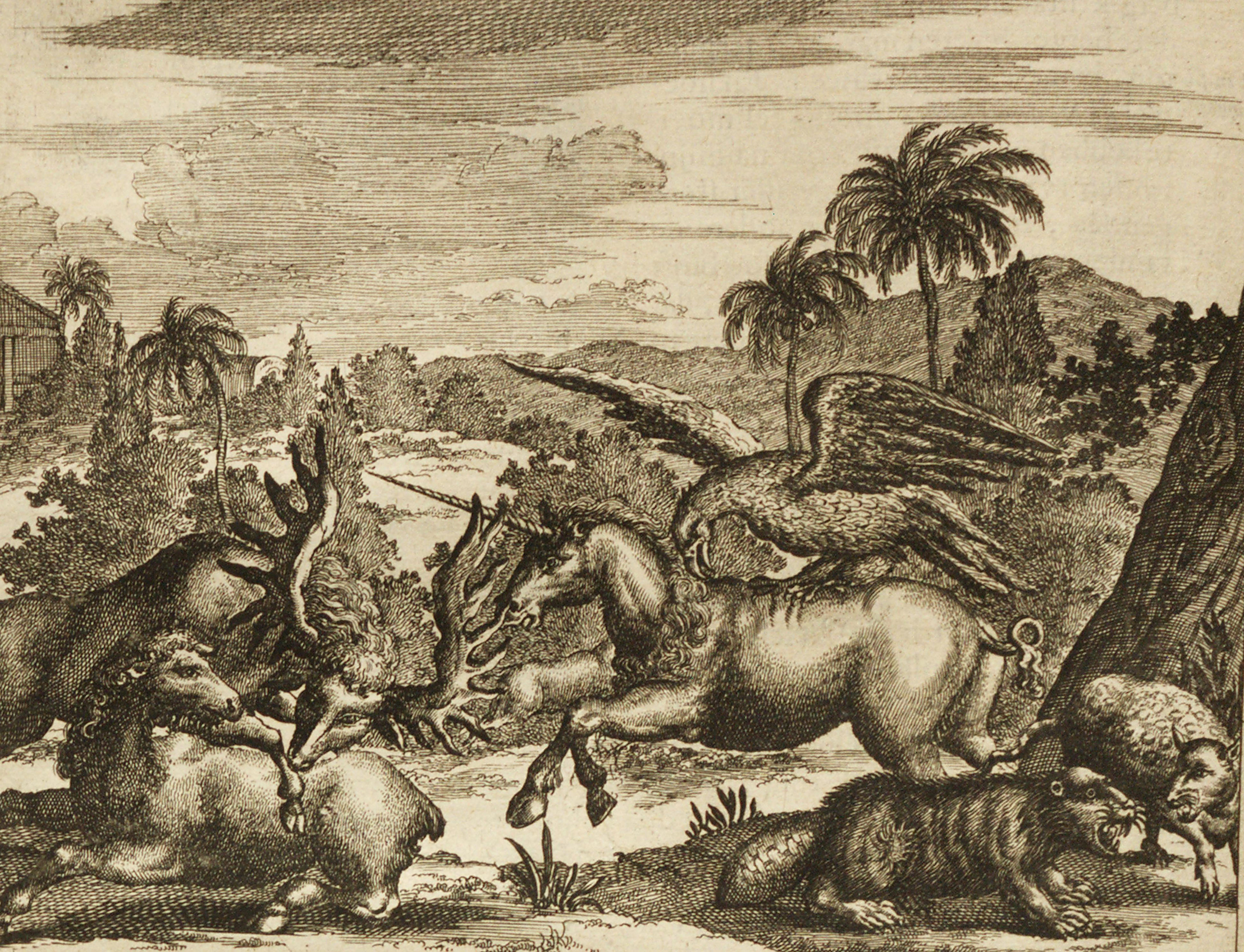 An image taken from the book "De Nieuwe en Onbekende Weereld". The image shows the unicorn, an unrealistic animal.